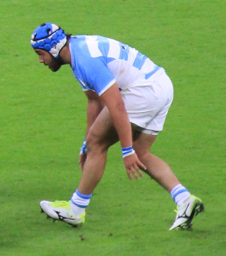 Argentina international rugby union footballer JLucas Noguera Paz playing in 2015 Rugby World Cup game New Zealand vs Argentina at Wembley Stadium in London.